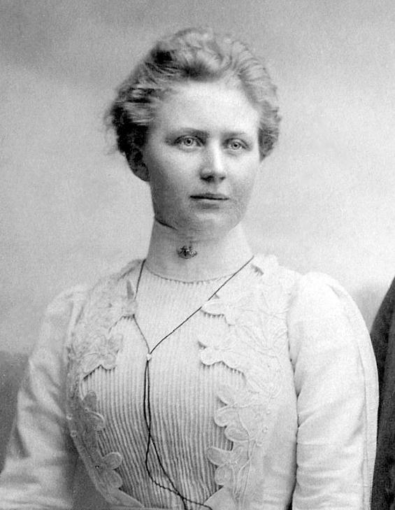 This image is believed to be of Elisabeth and Friedrich Trump, who emigrated to the United States and would become Donald Trump's grandparents. They are pictured here in 1902.